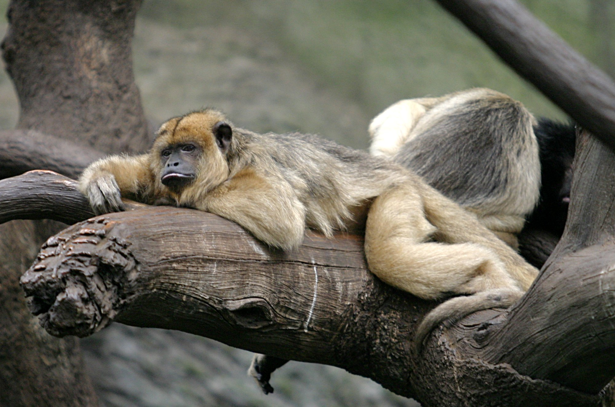 Some Black Howler Monkies resting in a tree at the Henry Doorly Zoo in Omaha, Nebraska.